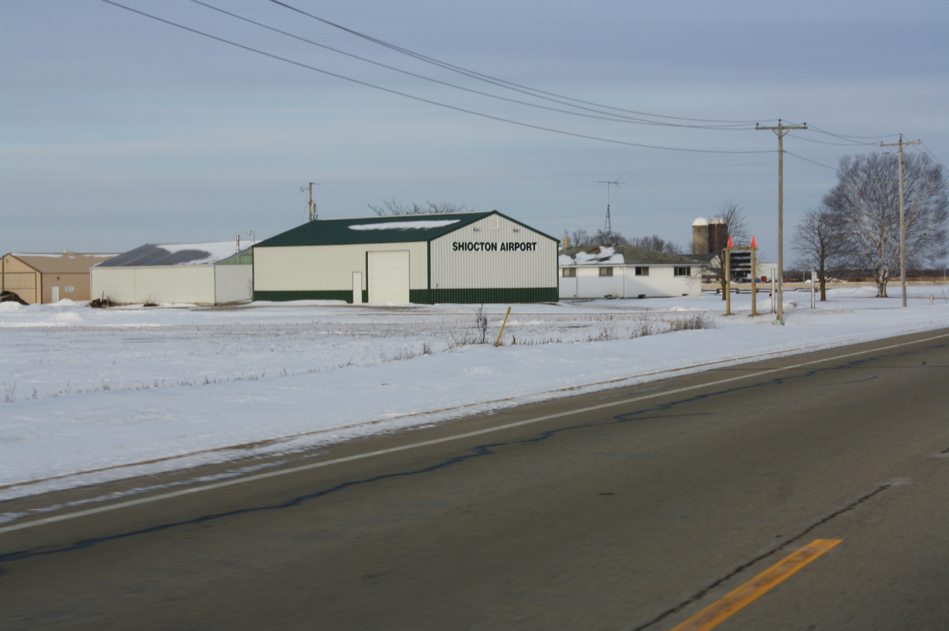 The Shiocton airport in Shiocton, Wisconsin on Wisconsin Highway 54.